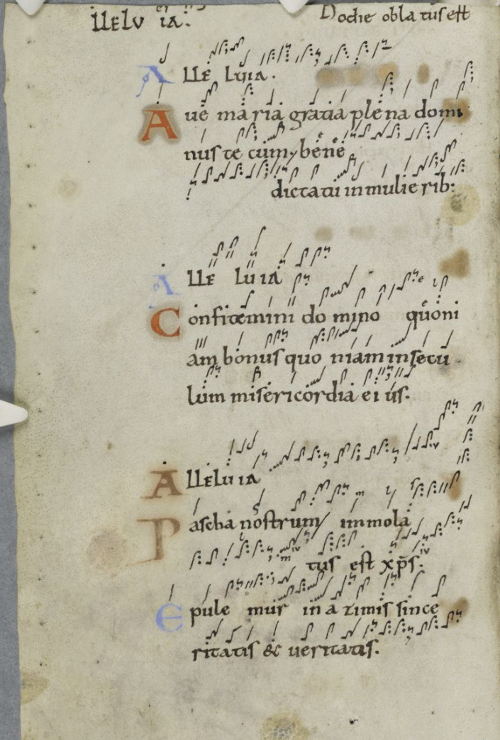 Winchester Troper: Cambridge, Corpus Christi College, MS 473, fo 3v